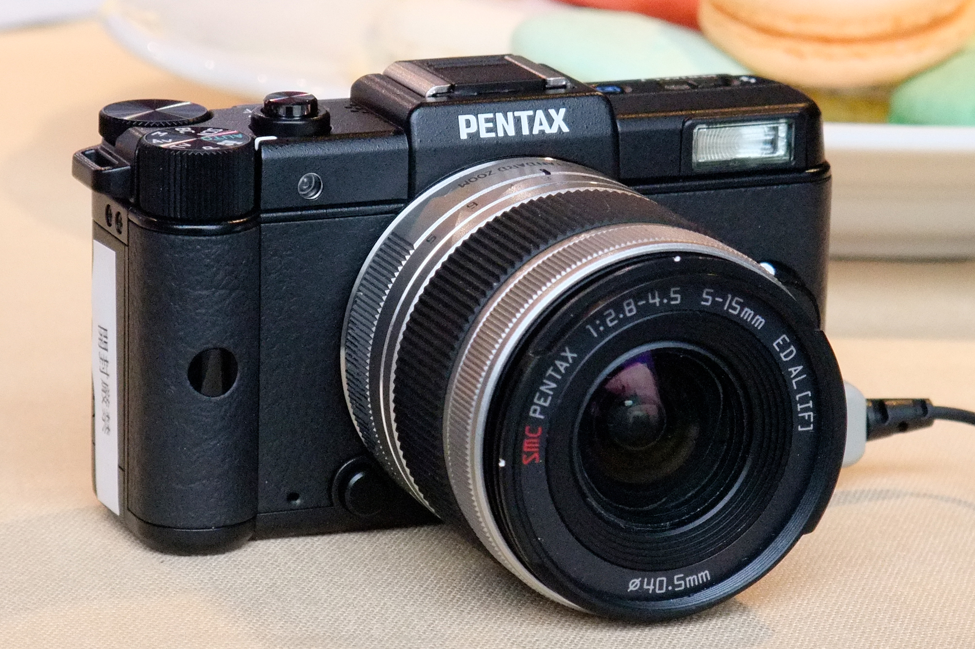 Pentax Q, at Osaka Station, Japan